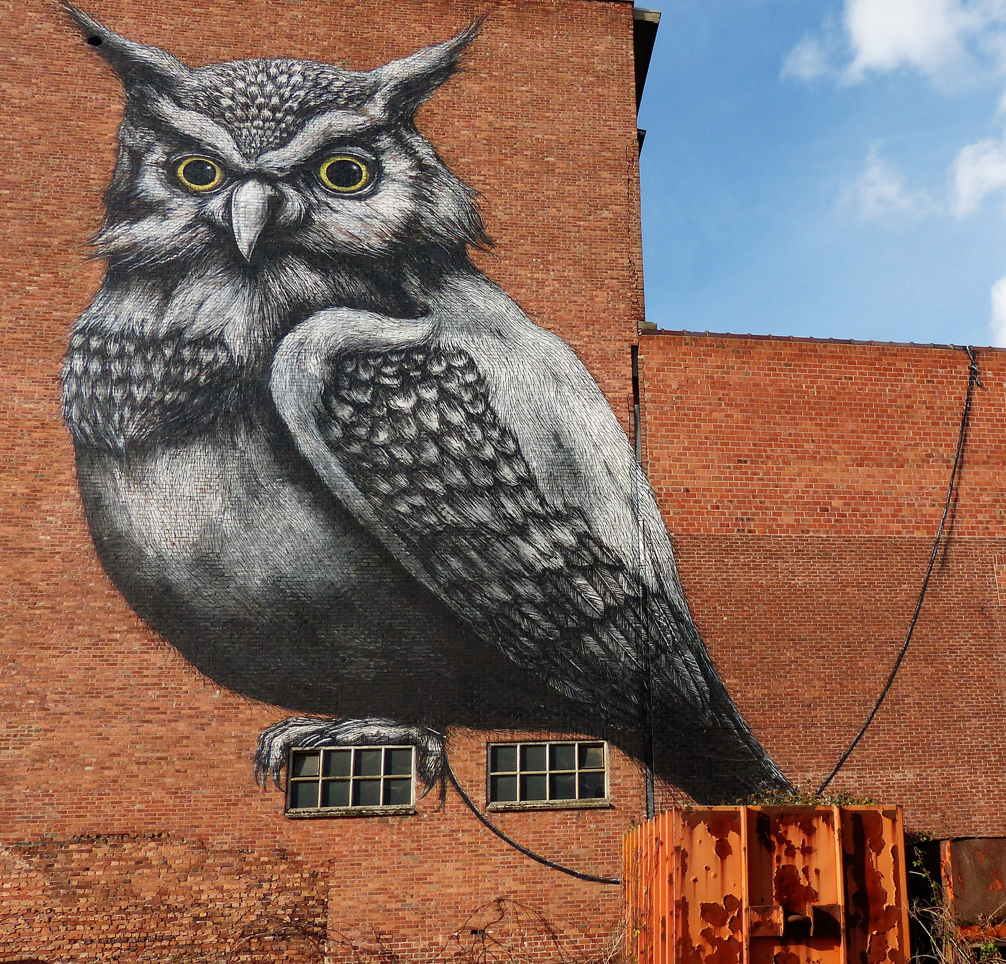 Owl, by artist ROA, in Hasselt